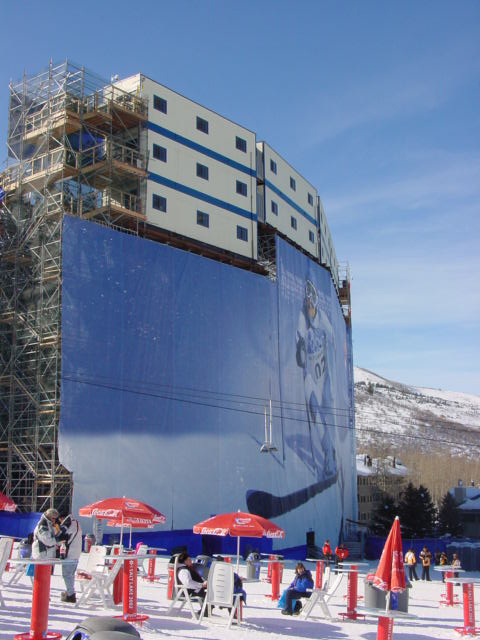 Exterior of a spectator stadium at one of the snowboarding courses at Park City Mountain Resort during the 2002 Winter Olympics.